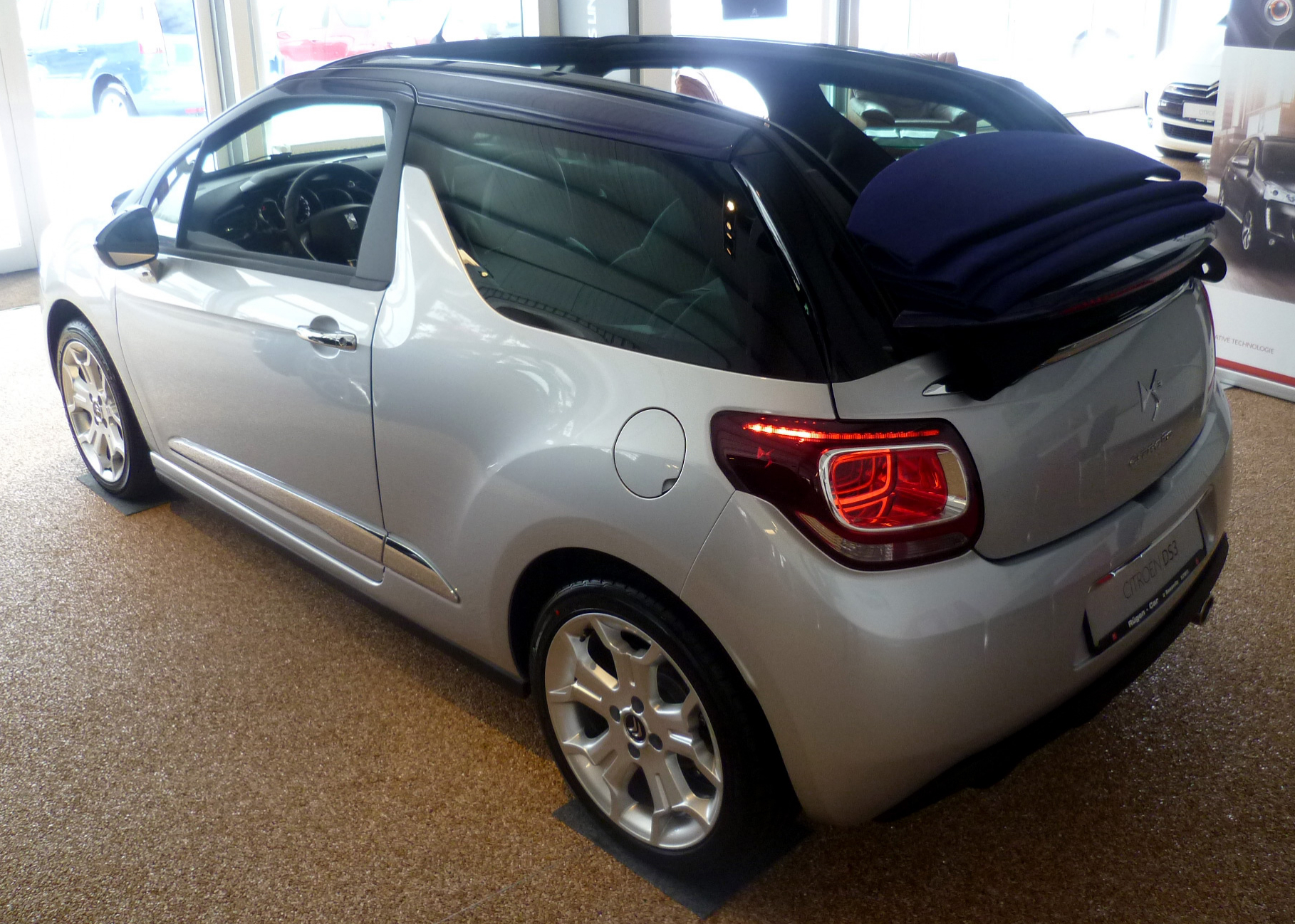 2013 CITROËN DS3 CABRIO VTi 120 SoChic